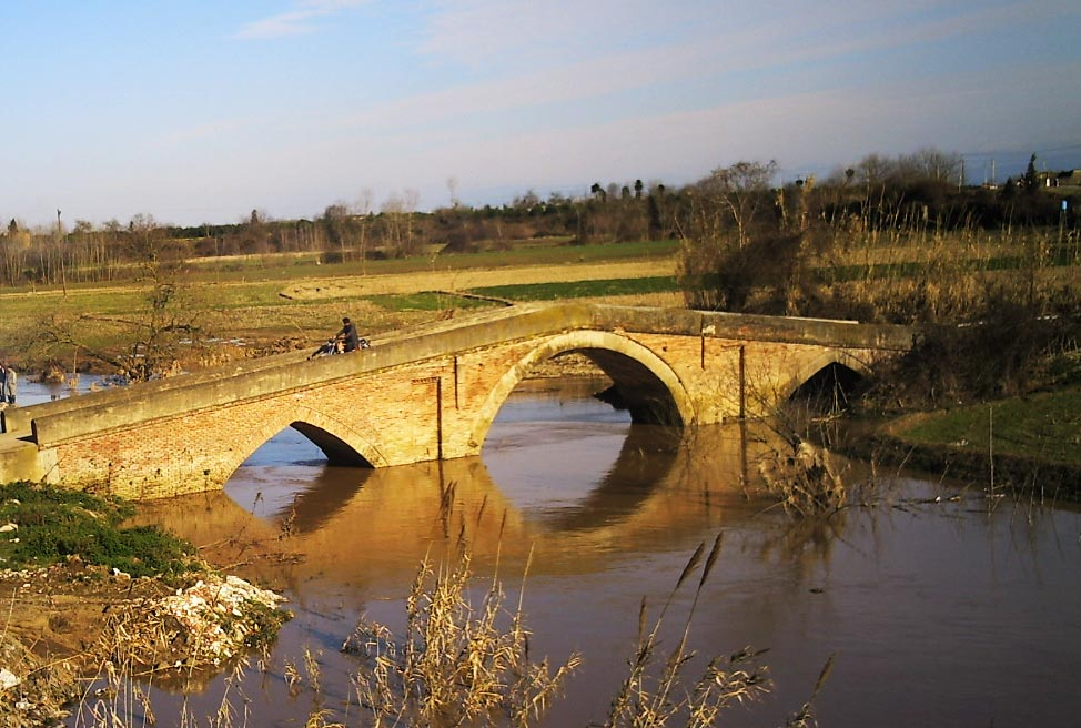 kheshtpol in juybar